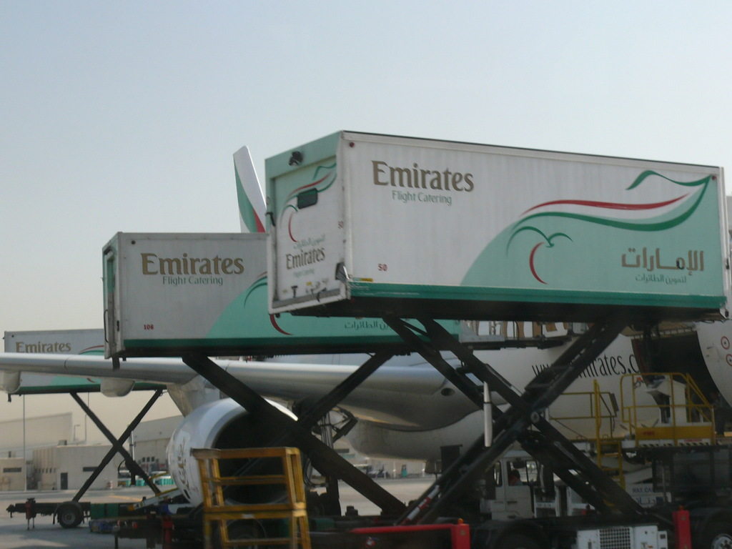 This is a photo showing the stocking of food onto an Emirates Airline plane by Emirates Flight Catering at Dubai International Airport in Dubai, United Arab Emirates on 23 September 2007.